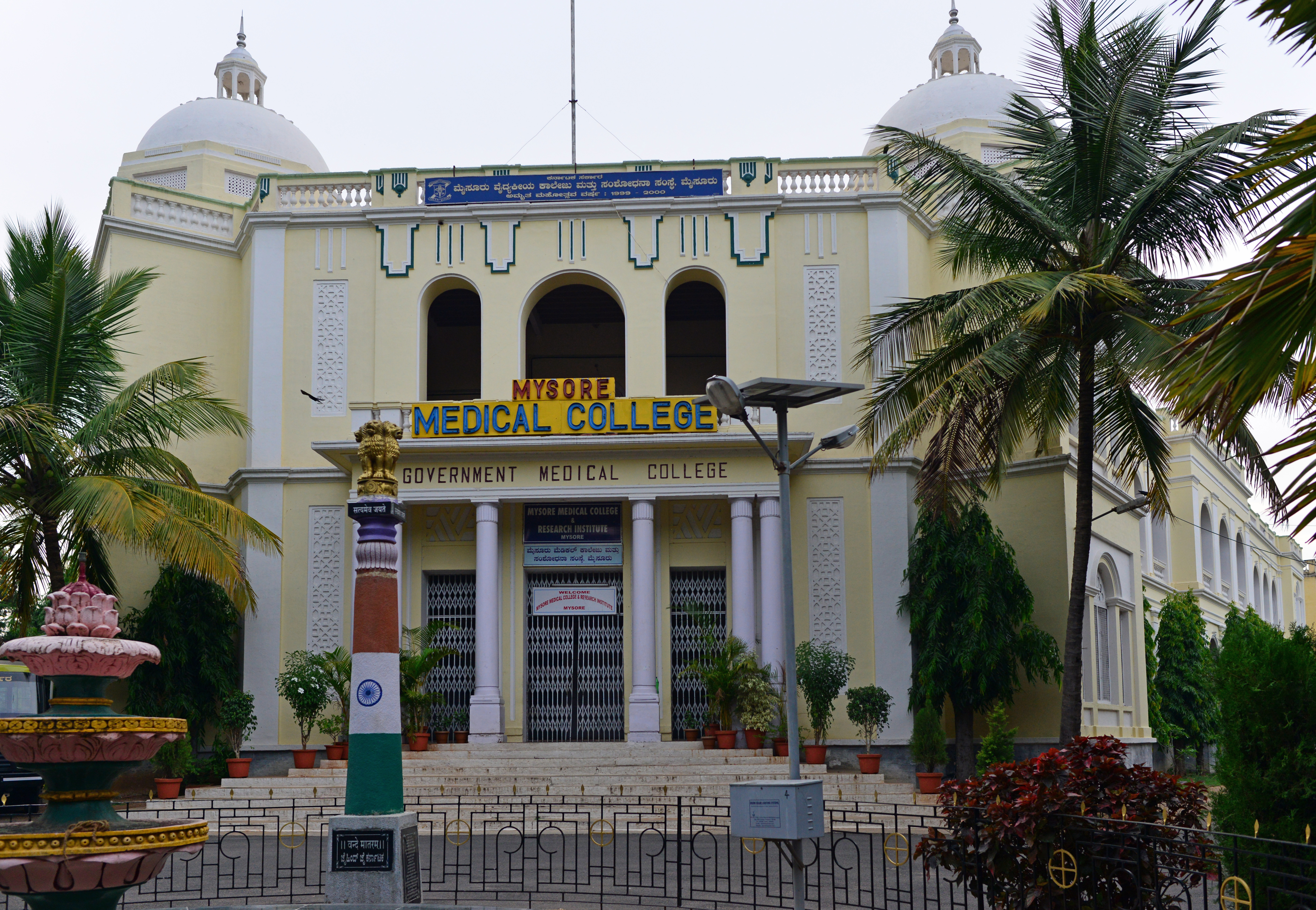 Main entrance Government Medical College, Mysore